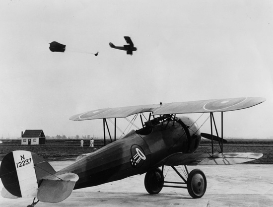 Garland-Lincoln LF-1, with JN-4 "Jenny" flying in background